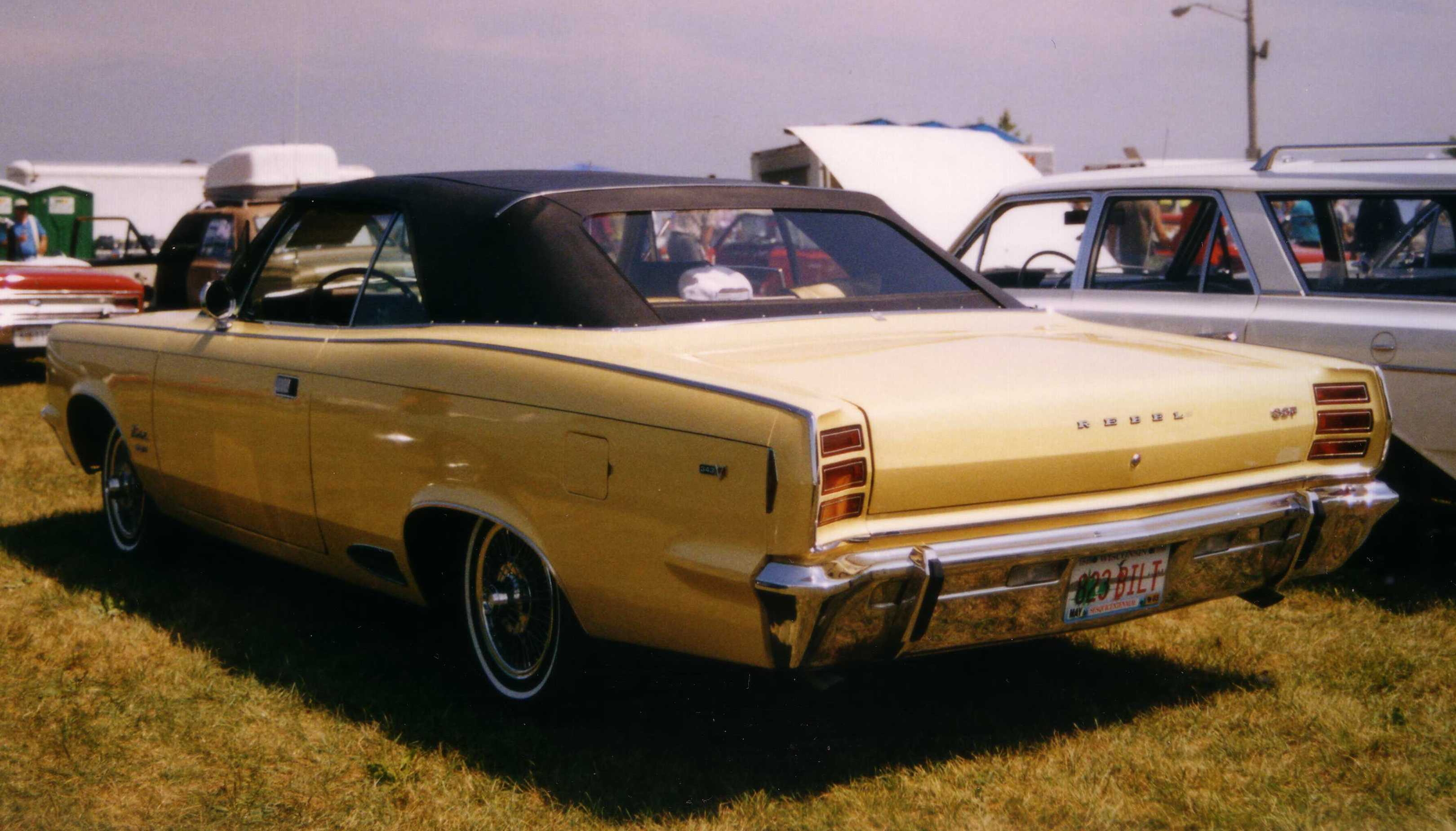 1968 Rambler Rebel SST convertible (rear view) built by American Motors Corporation (AMC)